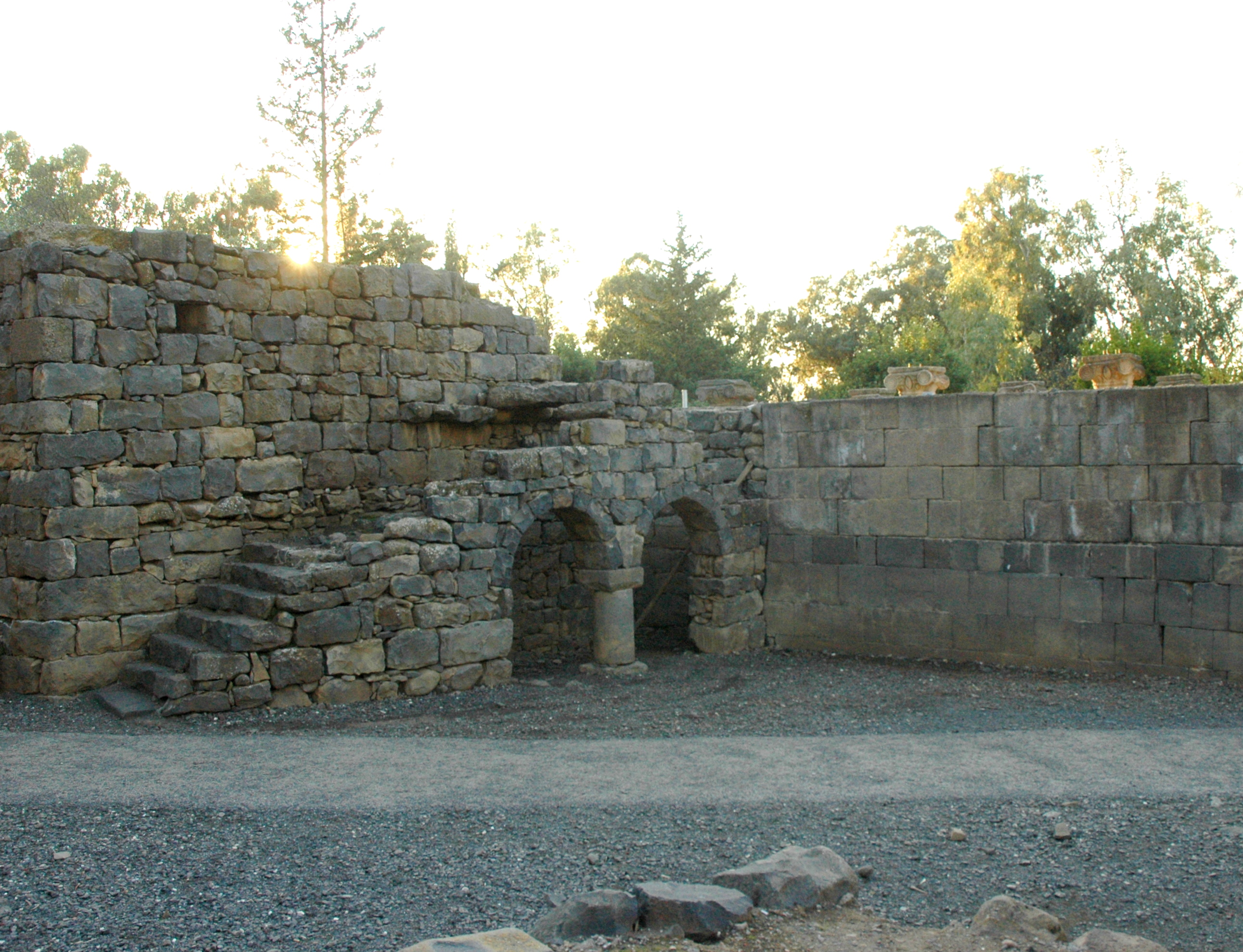 Katzrin, section of reconstructed Talmudic-era village, Golan Heights